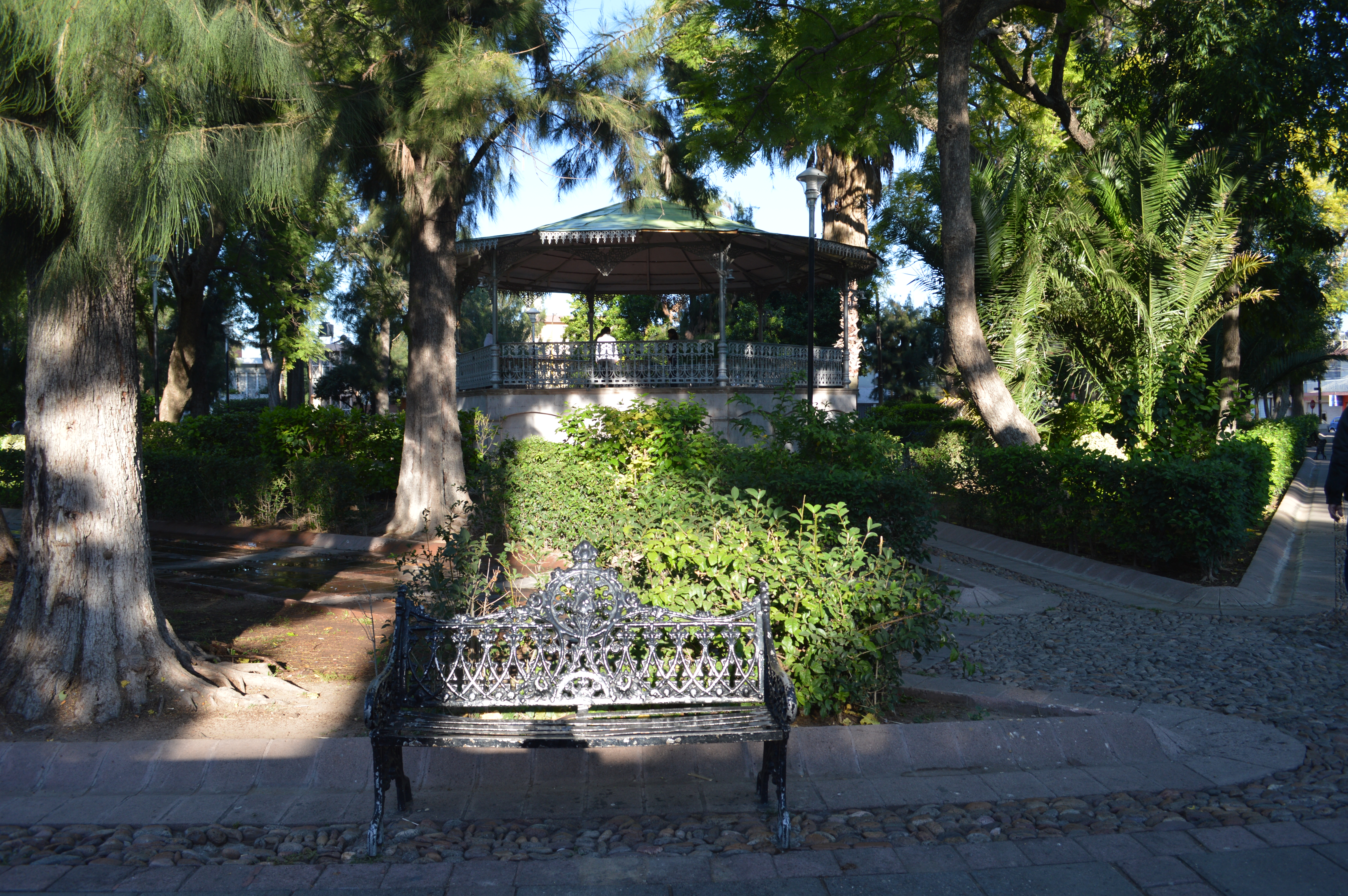 Kiosk in the main plaza of the Barrio de Guadalupe in the city of Aguascalientes